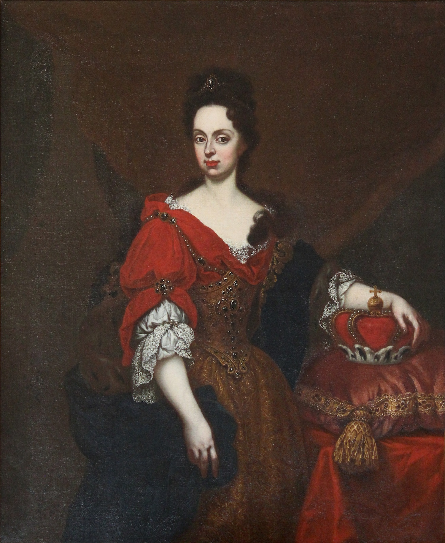 The portrait of Anna Maria Luisa de' Medici, Electress Palatine, daughter of Cosimo III de' Medici, Grand Duke of Tuscany, is part of the so-called "serie aulica" (or "of the most serene princes"), a collection of portraits of the most important members of the House of Medici. The work entered into the Uffizi Gallery on 10 September 1726. The artist is not known, but the portrait planning and modus operandi have been recognized strictly close to that one of Violante Beatrice of Bavaria, Anna Maria Luisa's sister-in-law, for which the name of the painter Giovanni Gaetano Gabbiani is documented. It seems that we should attribute him all the last portraits of the "serie aulica", similar in execution. The attribution of Anna Maria Luisa's portrait to Gabbiani is corroborated by the fact that the Princess herself commissioned to the painter a copy of this painting (payment receipt of 14 February 1743).